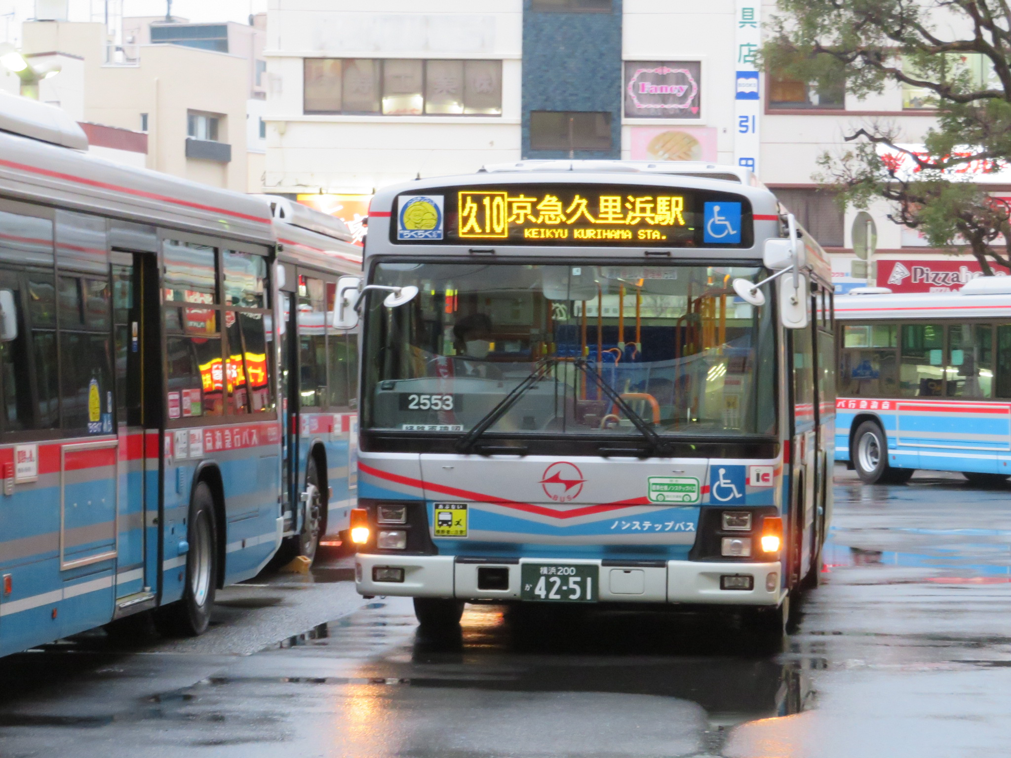 Keikyu bus Keikyu Kurihma sta